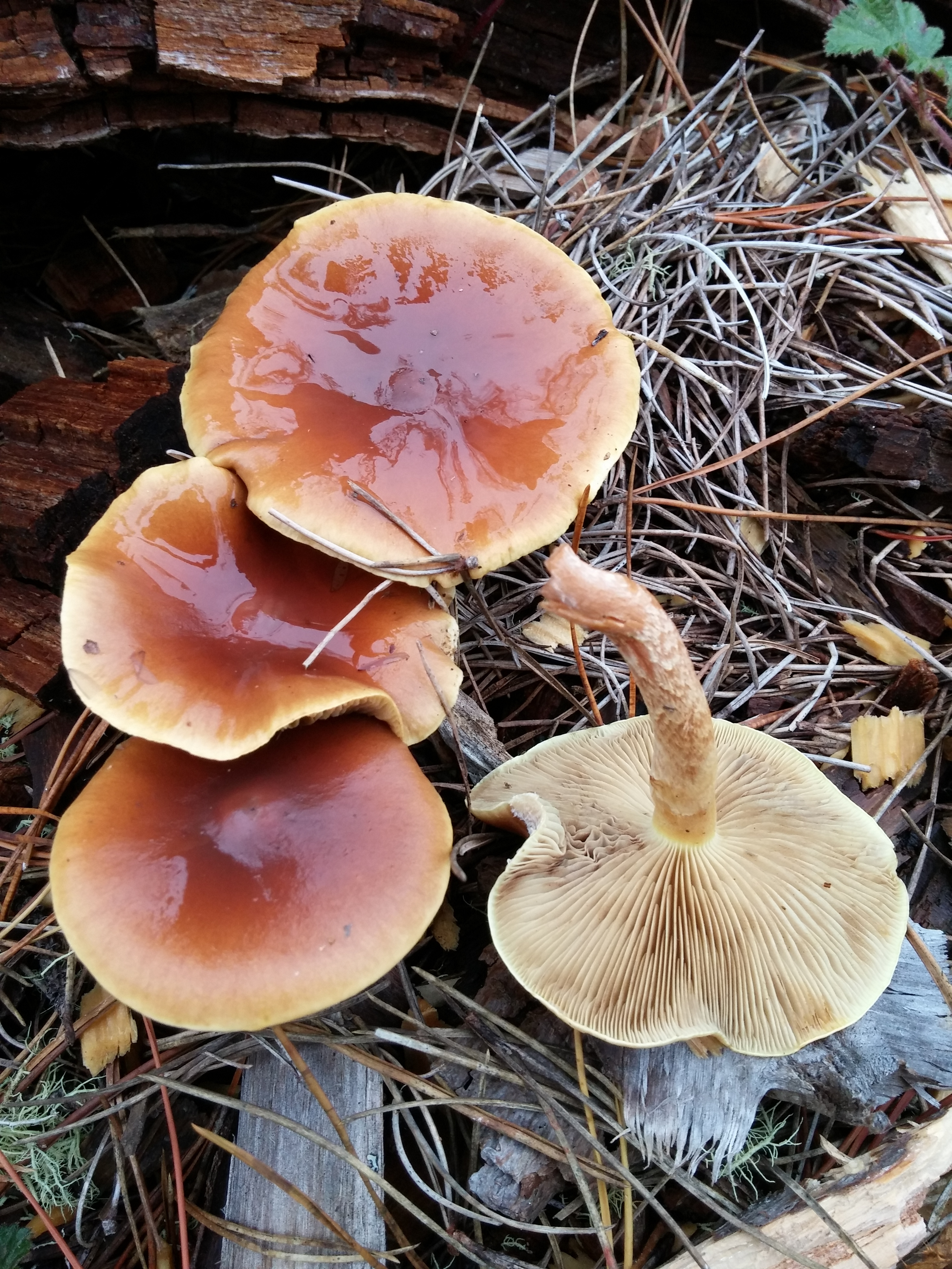 Fruitbodies of the agaric fungus Pholiota velaglutinosa A.H. Sm. & Hesler. Photographed in Point Reyes National Seashore, Marin Co., California, USA.